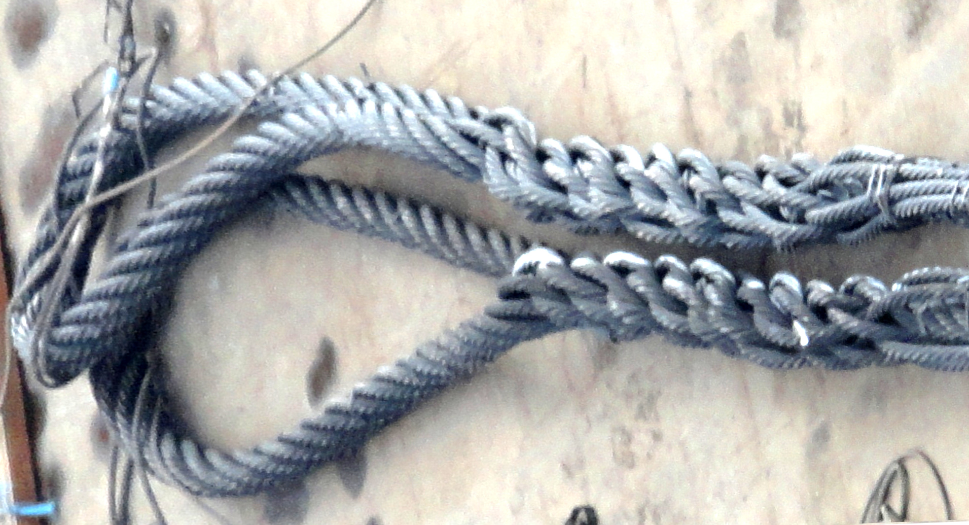 Wire rope Eye splice, 283mm diameter